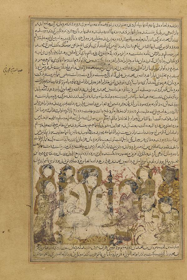 Folio from a Tarikhnama (Book of history) by Balami